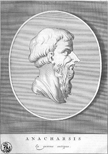 portrait of Anacharsis the Scythian philosopher, an 18th-century Italian etching based on an ancient cut gem.